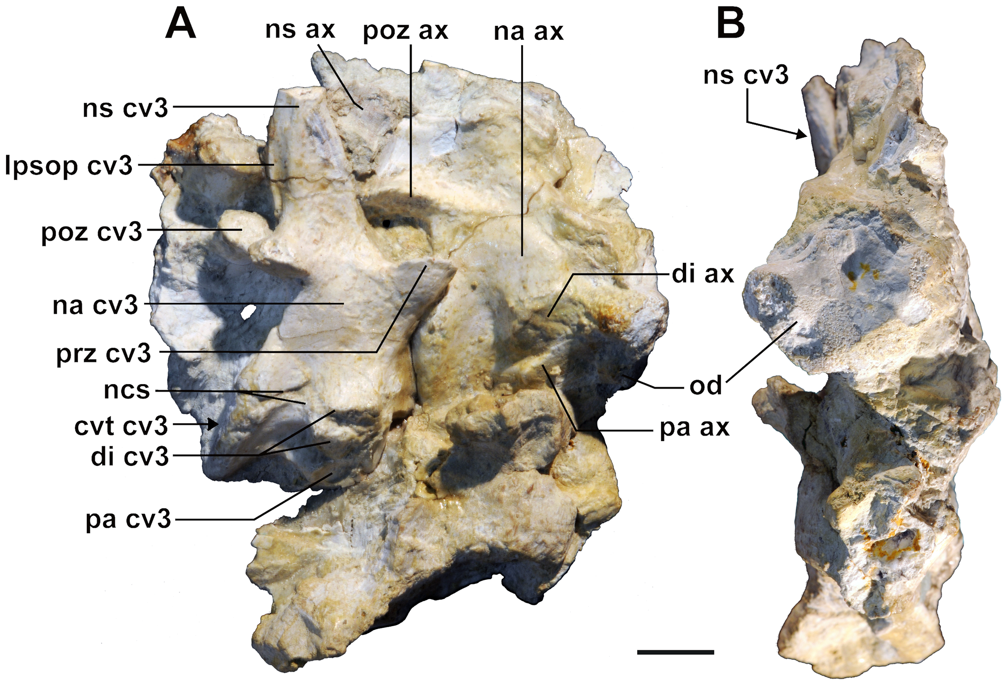 Sahitisuchus fluminensis gen. et sp. nov. (MCT 1730-R) cervical vertebrae. A, right lateral view of axis and third cervical vertebra; B, anterior view, showing the odontoid process. cvt cv3, centrum of third cervical vertebra; di ax, axis diapophysis; di cv3, diapophysis of third cervical vertebra; lpsop cv3, postspinal lamina of third cervical vertebra; na ax, axis neural arch; na cv3, neural arch of third cervical vertebra; ncs, neuro-central suture; ns ax, axis neural spine; ns cv3, neural spine of third cervical vertebra; od, odontoid process; pa ax, axis parapophysis; pa cv3, parapophysis of third cervical vertebra; poz ax, axis postzygapophysis; poz cv3, postzygapophysis of third cervical vertebra; prz cv3, prezygapophysis of third cervical vertebra. Scale bar: 10 mm.